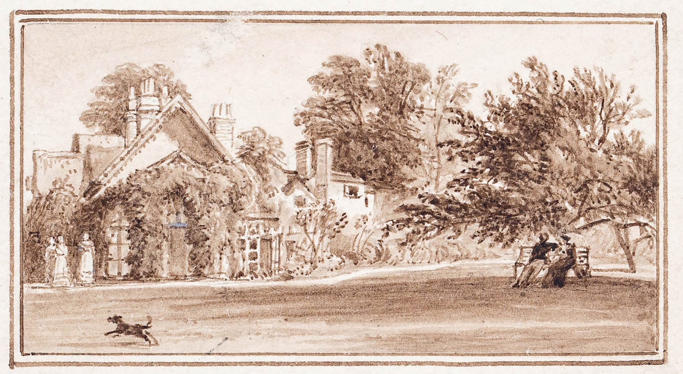 Offered for sale by Abbott and Holder in January 2020 when it was described as "MONRO School (1827) ‘Bushey, Herts / Cottage Orné of Dr Monro’s / September / 1827’. Sepia ink. Inscribed verso. 1.25x2.25 inches."